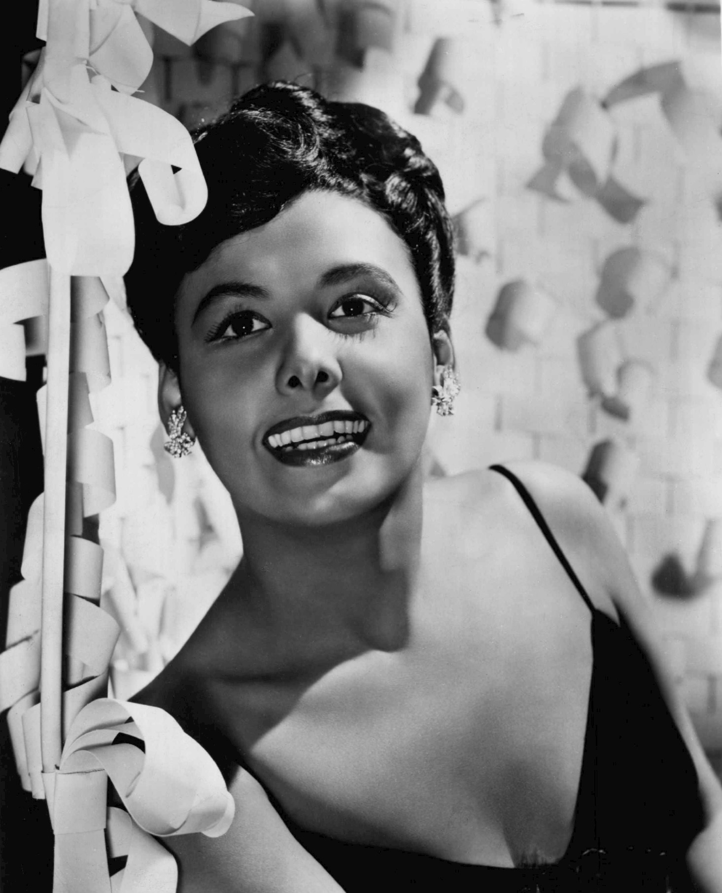 Photo of Lena Horne.